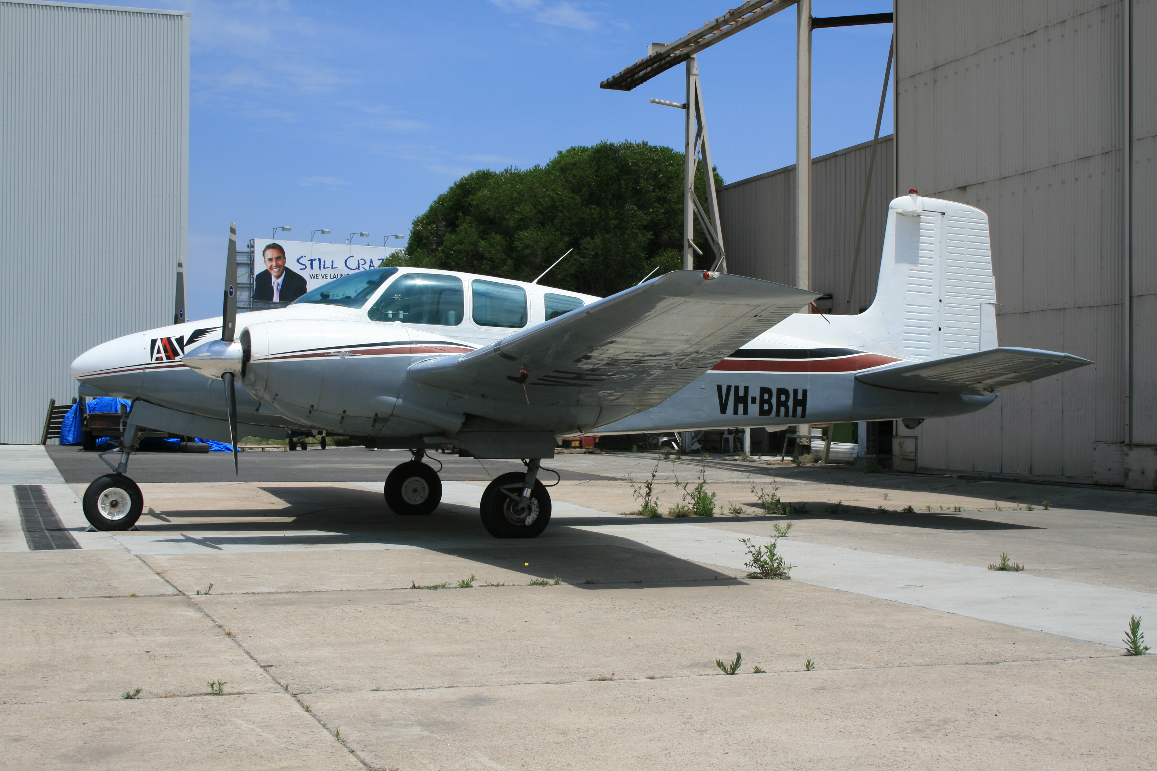 Beechcraft J50 Twin Bonanza at Essendon Airport Digital photo of J50 VH-BRH taken by YSSYguy on 5 December 2007 & uploaded for use in the Beechcraft Twin Bonanza article